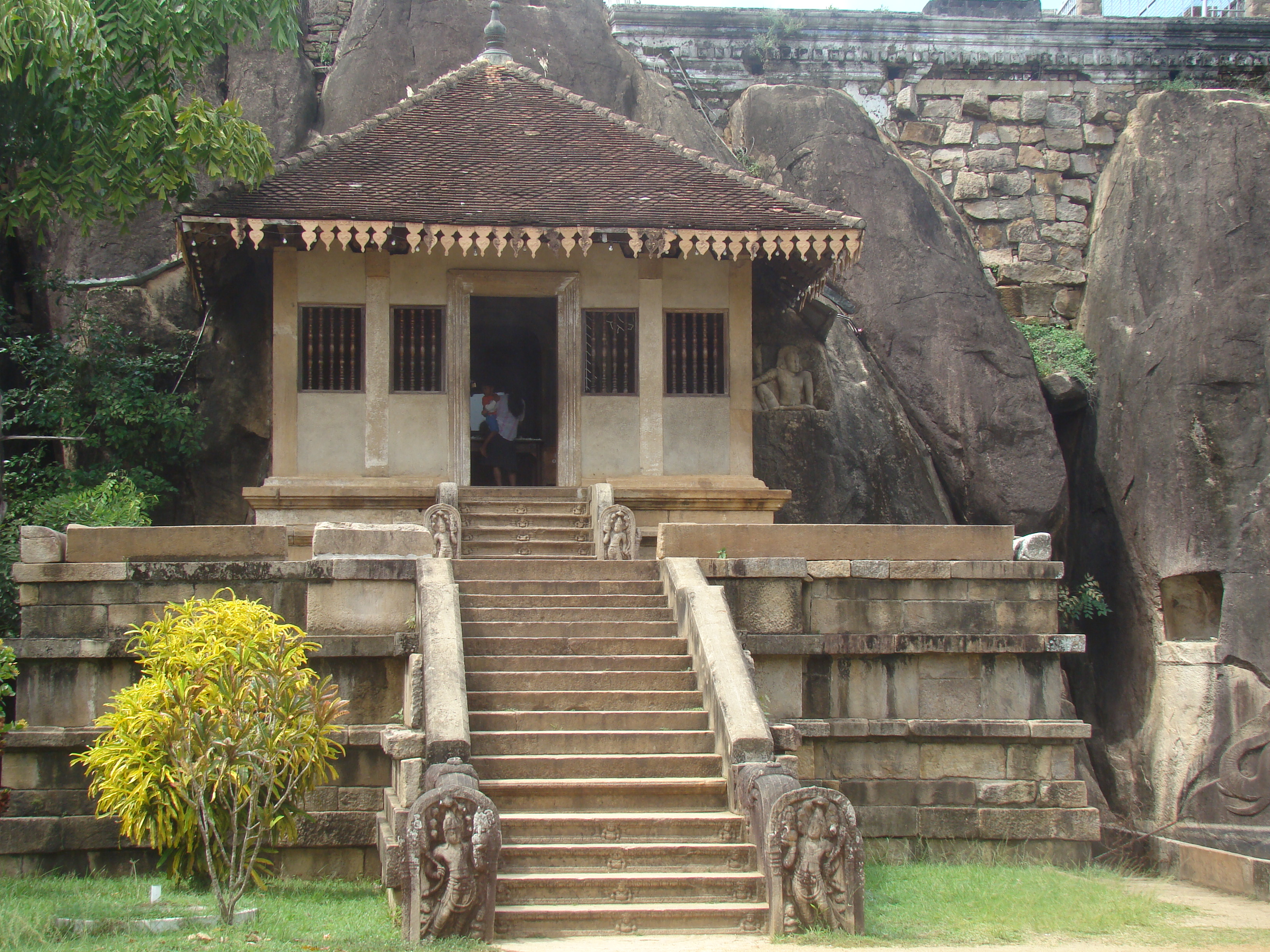 The temple was built by King DEVANAMPIYATHISSA who ruled in the ancient Sri Lankan capital of Anuradhapura. After 500 children of high-caste were ordained, Isurumuniya was built for them to reside. King Kasyapa I (473-491 AD) renovated this viharaya and named it as "Boupulvan, Kasubgiri Radmaha Vehera". This name is derived from names of his 2 daughters and his name. There is a viharaya connected to a cave and above is a cliff. A small stupa is built on it. It can be seen that the constructional work of this stupa belong to the present period. Lower down on both sides of a cleft, in a rock that appears to rise out of a pool, have been carved the figures of elephants. On the rock is carved the figure of a horse. The carving of Isurumuniya lovers on the slab has been brought from another place and placed it there. A few yards away from this vihara is the Ranmasu Uyana.